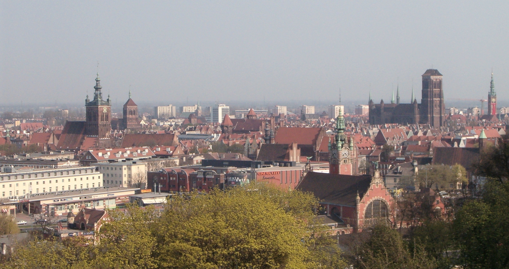 Gdansk